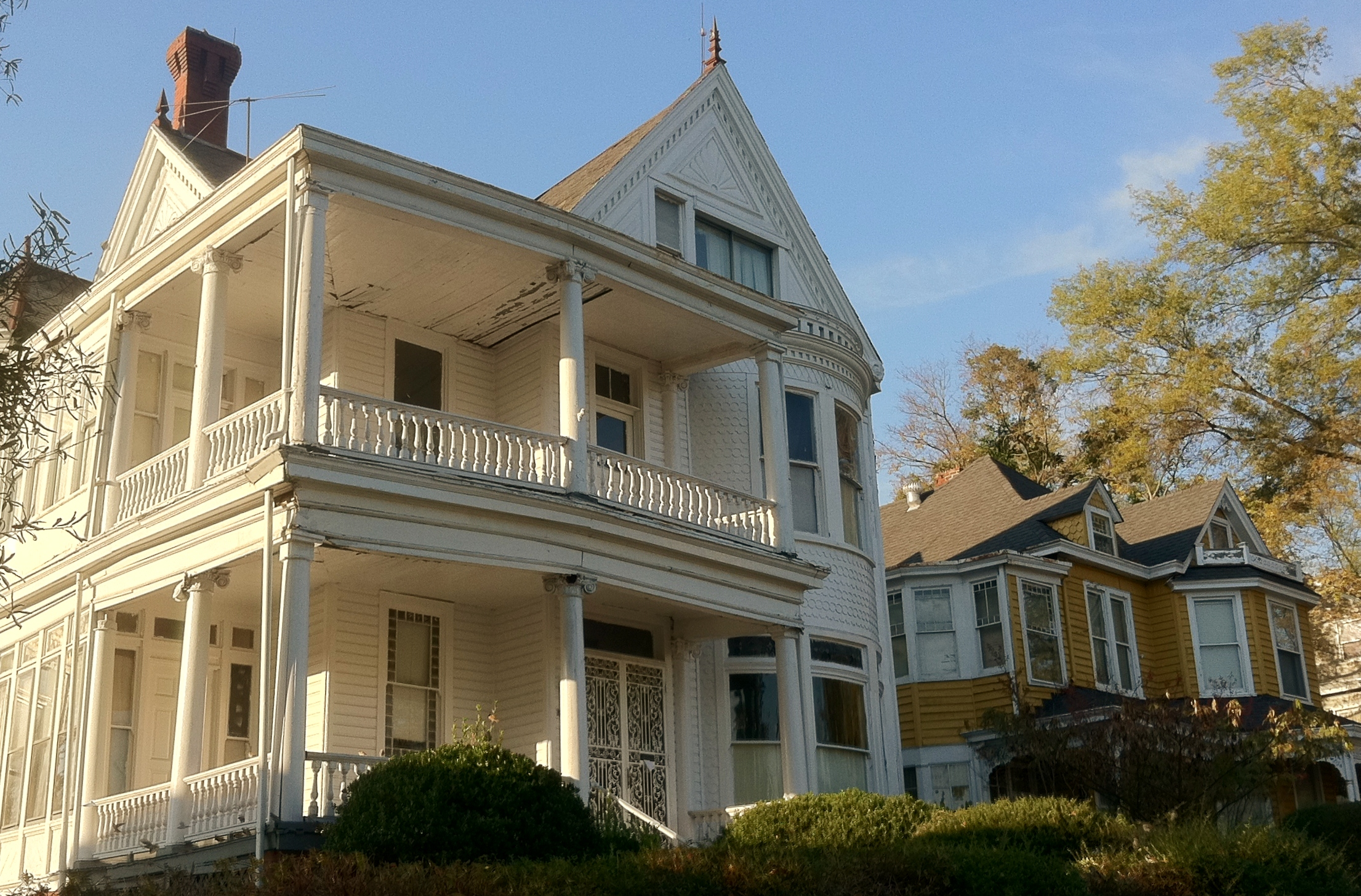 Queen Anne Victorian houses in the Chestnut Hill-Plateau historic district, Richmond, Virginia.